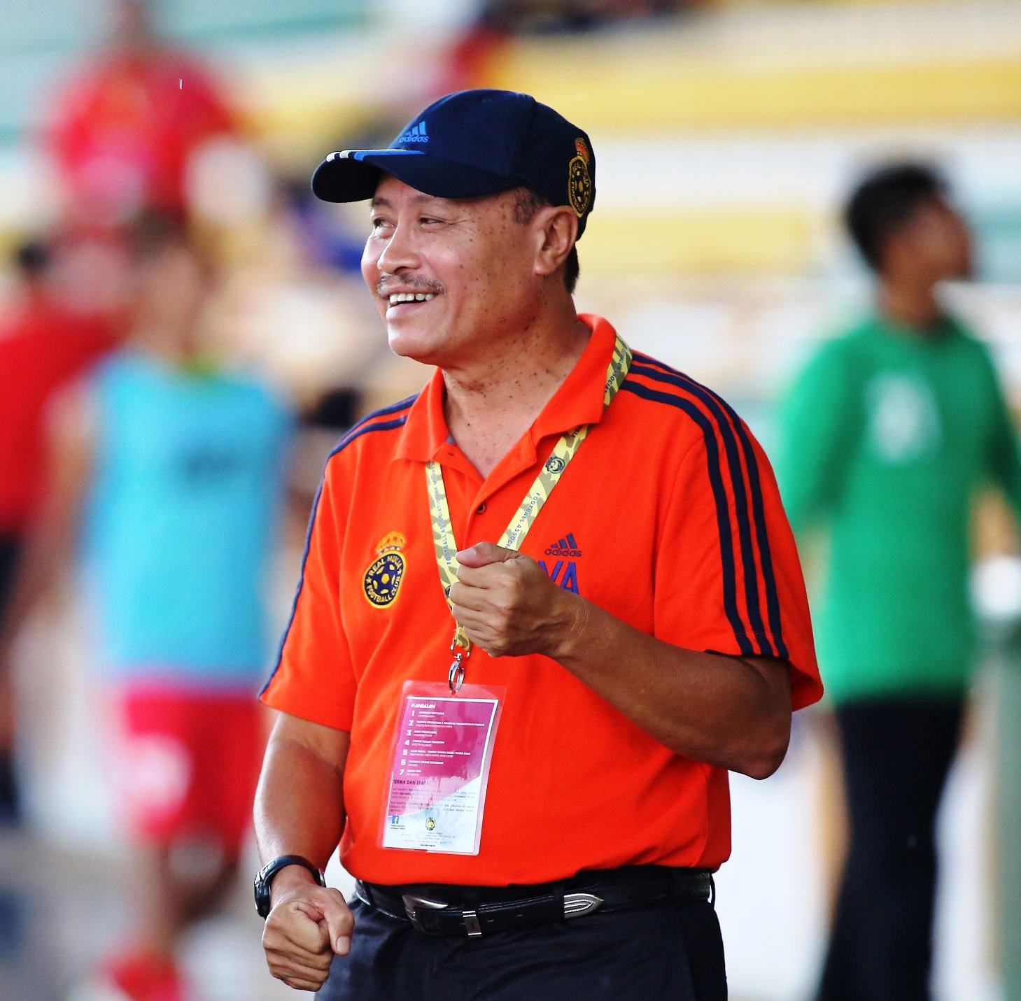 Real Mulia head coach looks delighted after saw his team won the game.